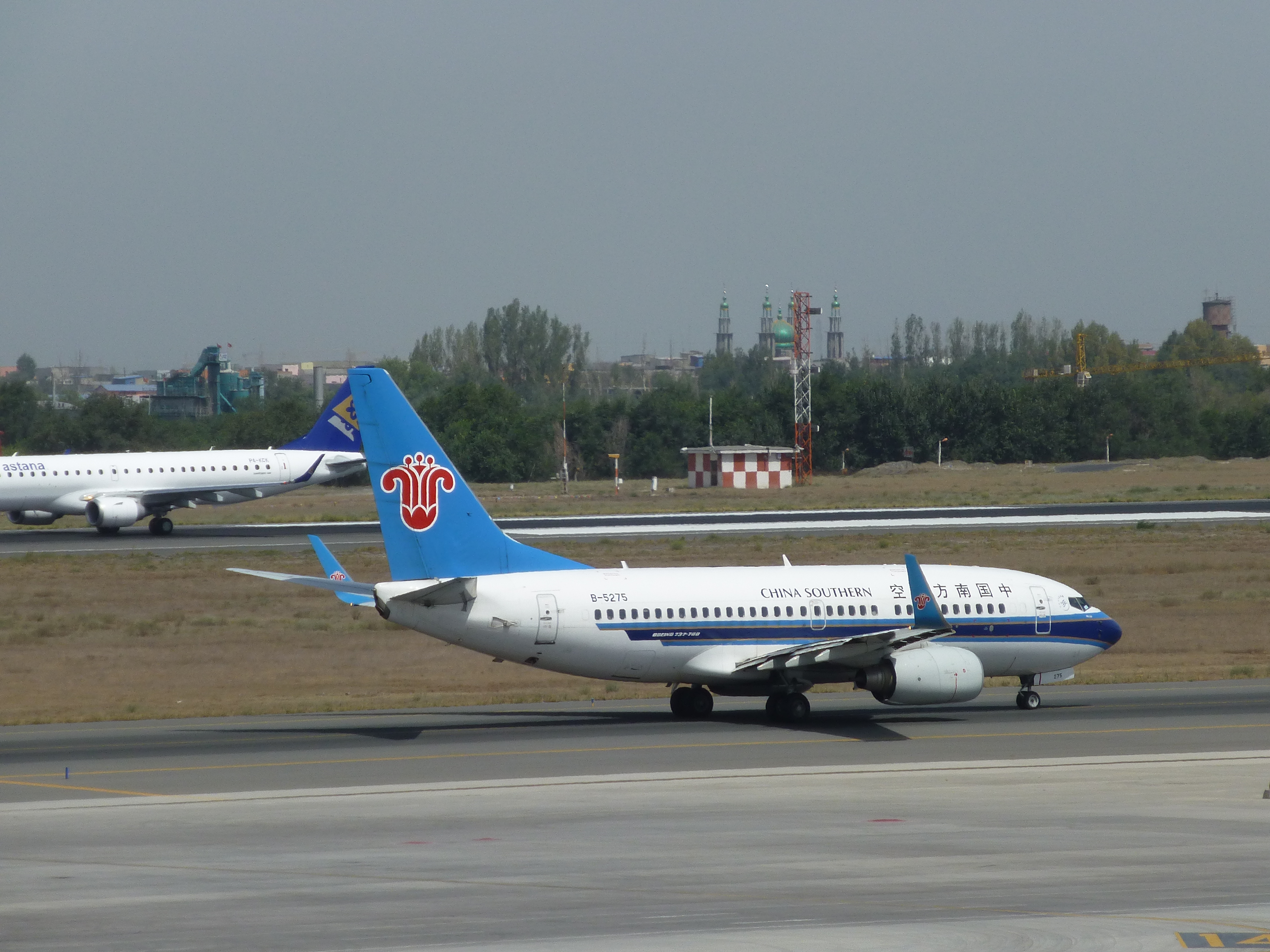 China Southern Airline Boeing 737-700 B-5275 in URC